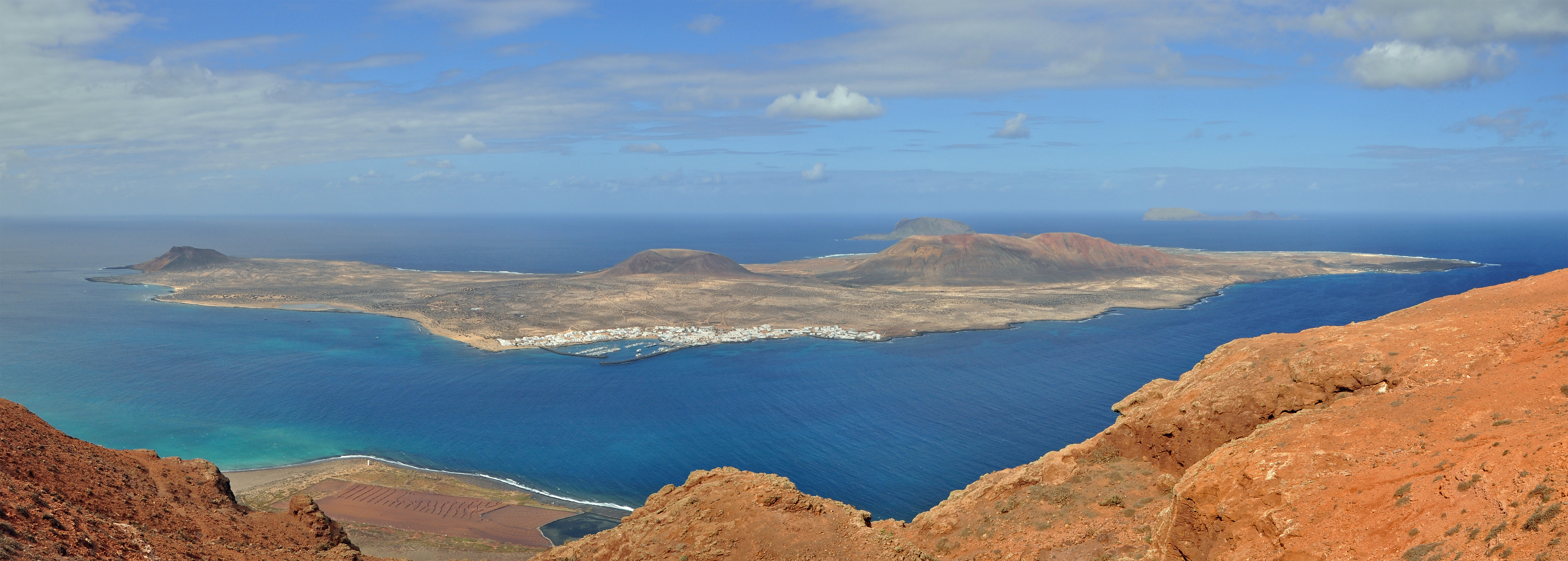 La Graciosa Island (Canary Islands), seen from Lanzarote; in the middle: the harbor of Caleta del Sebo